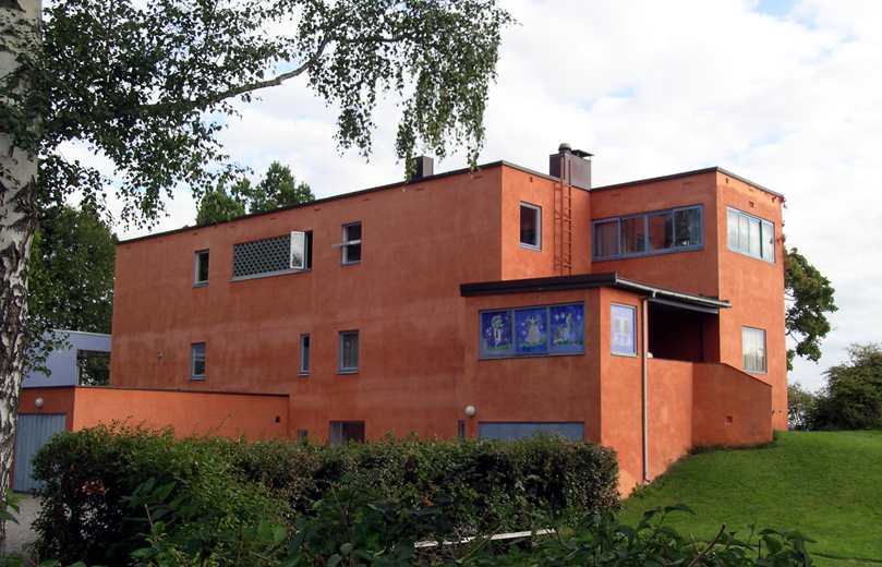 Villa Riise, Storhamargata 126, Hamar, Norway. Architect: Sverre Aasland. Protected by law.